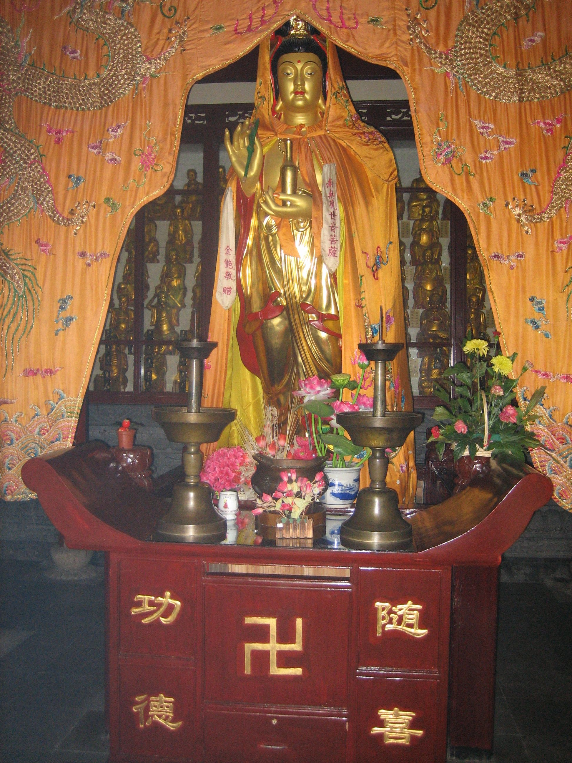 Statue with swasticka in Hanshan Temple, Fengqiao, Suzhou, China